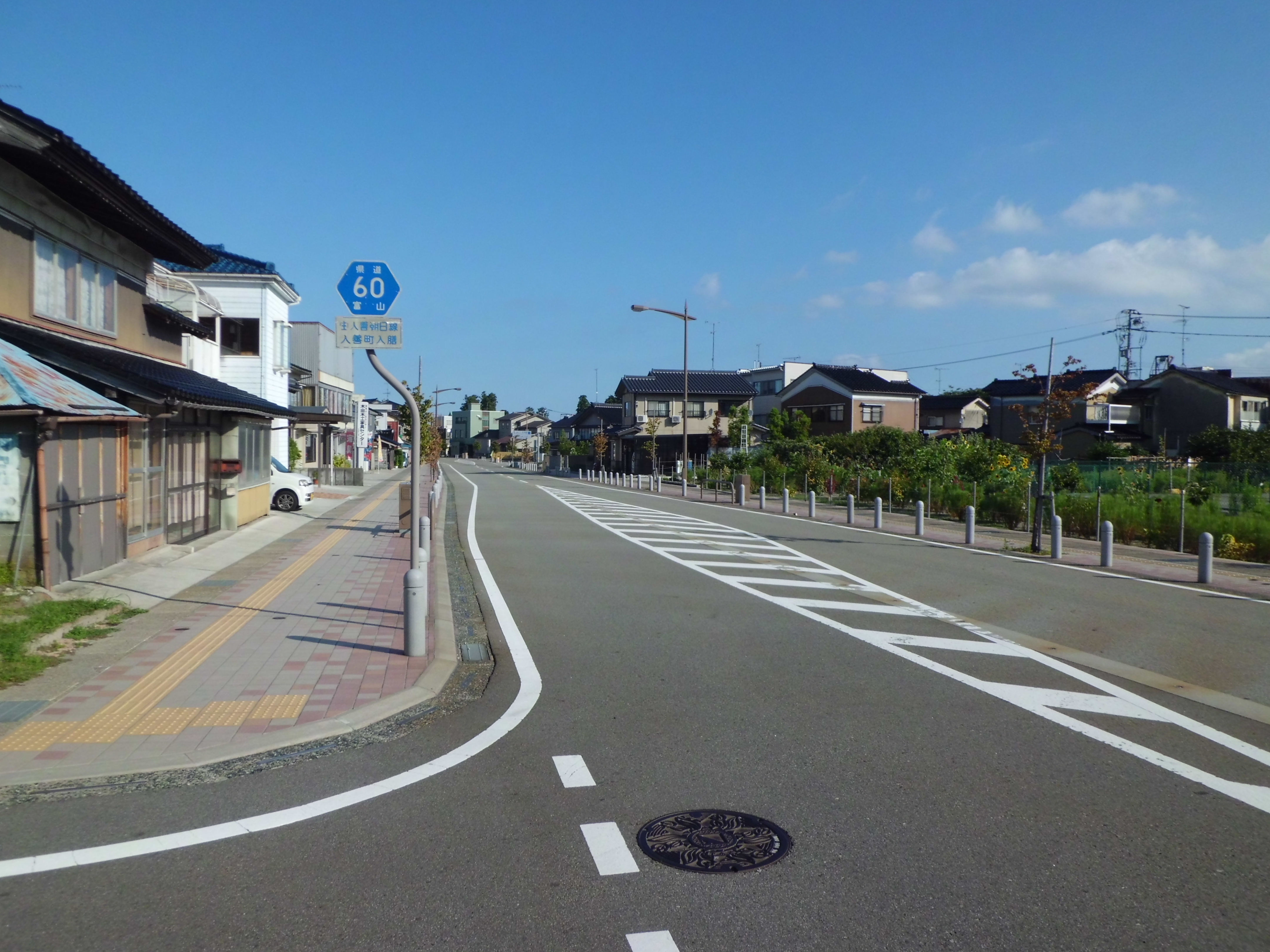 Toyama prefectural road 60 Nyuzen-Asahi line. Looking northwest from Nyuzenkoko-nishi intersection, Nyuzen, Nyuzen town.